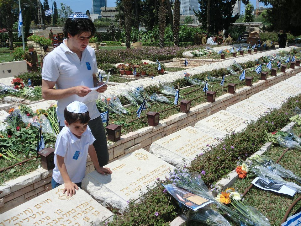 My Israel - Netzer Acharon: a project to commemorate fallen Holocaust survivors